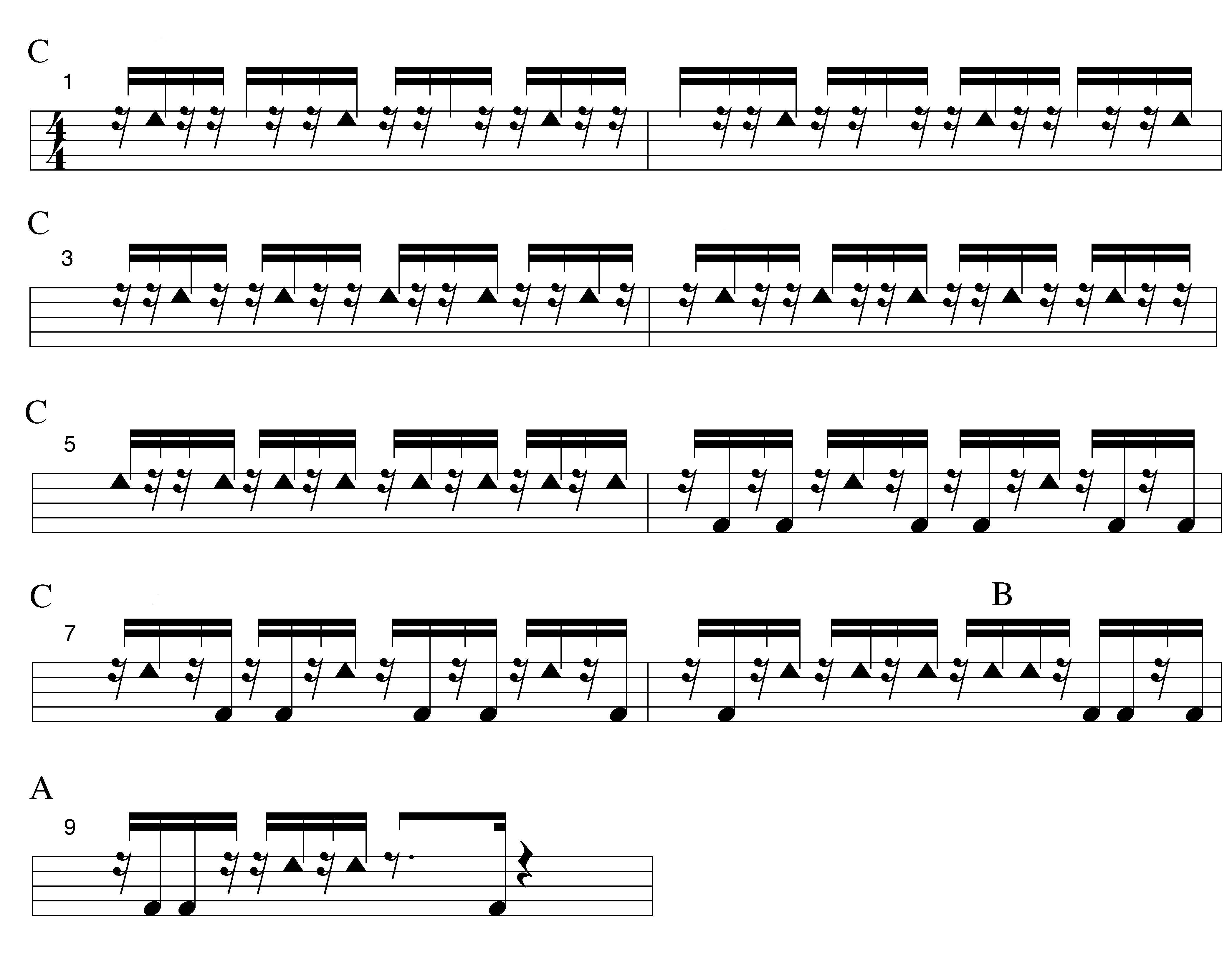 A nine measure quinto excerpt comprising all modes.